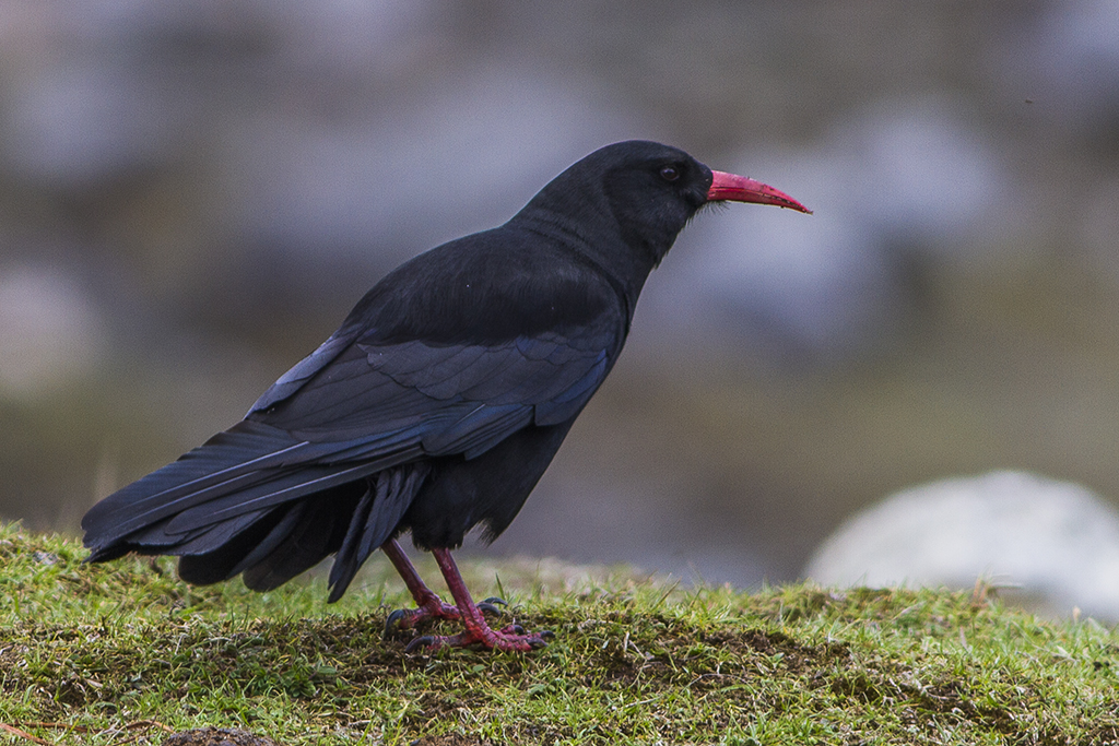 This species Red-billed Chough has been photographed from Sikkim, India in the month of May '14.